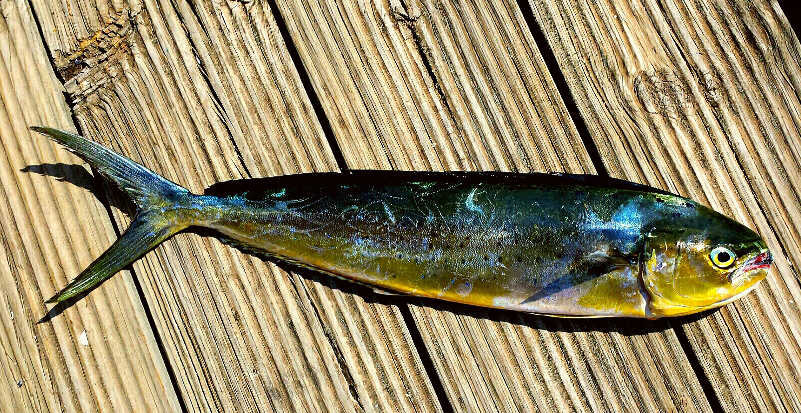 500px provided description: Dorado Golden Fish [#sea ,#summer ,#boats ,#port ,#fish ,#fishing ,#Greece ,#Trakia sea]